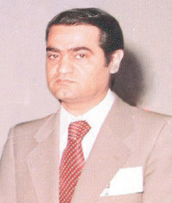 Mohammad Taghi Barkhordar